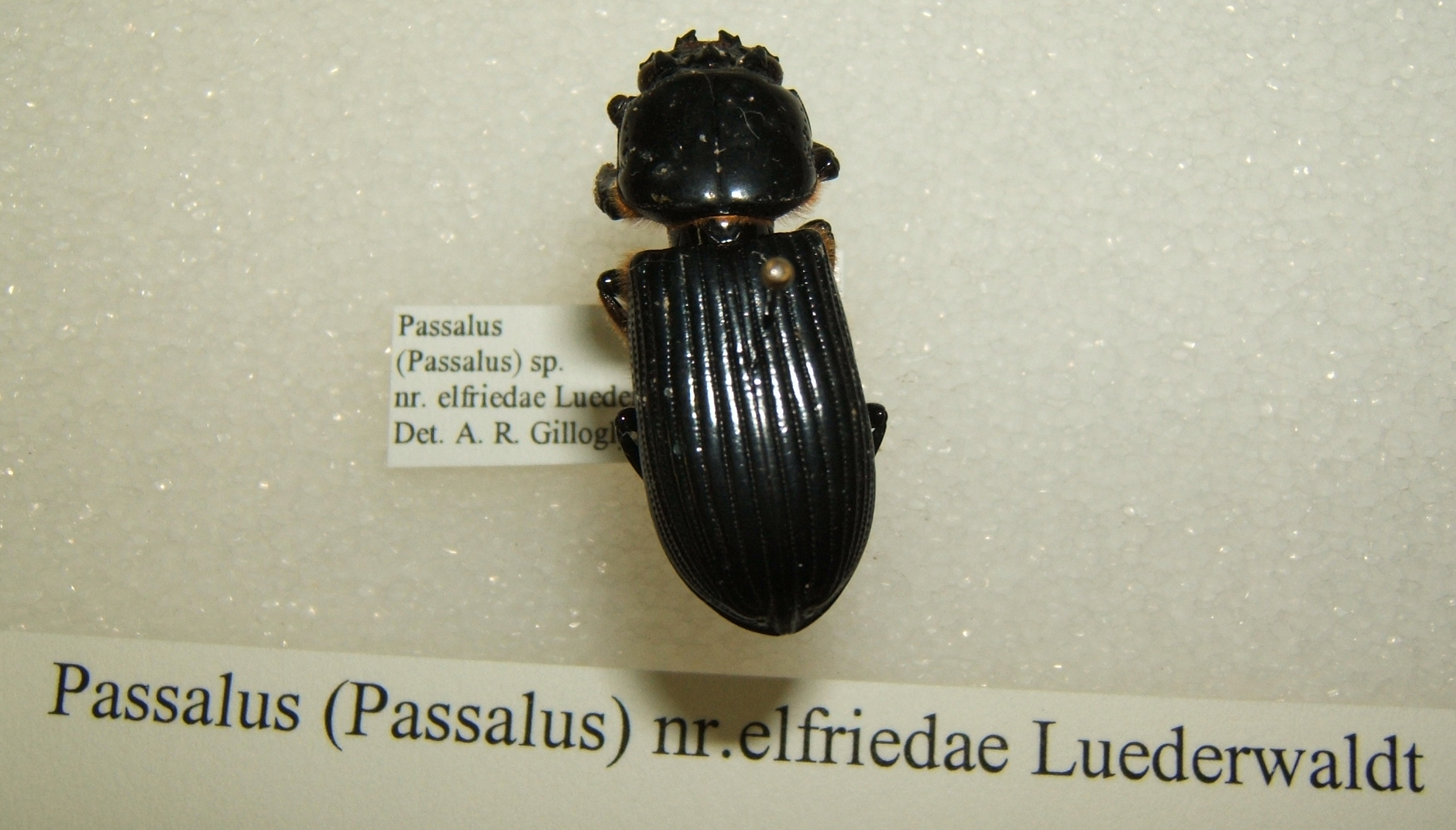 Passalus elfriedae adult taken by Shawn Hanrahan at the Texas A&M University Insect Collection in College Station, Texas.